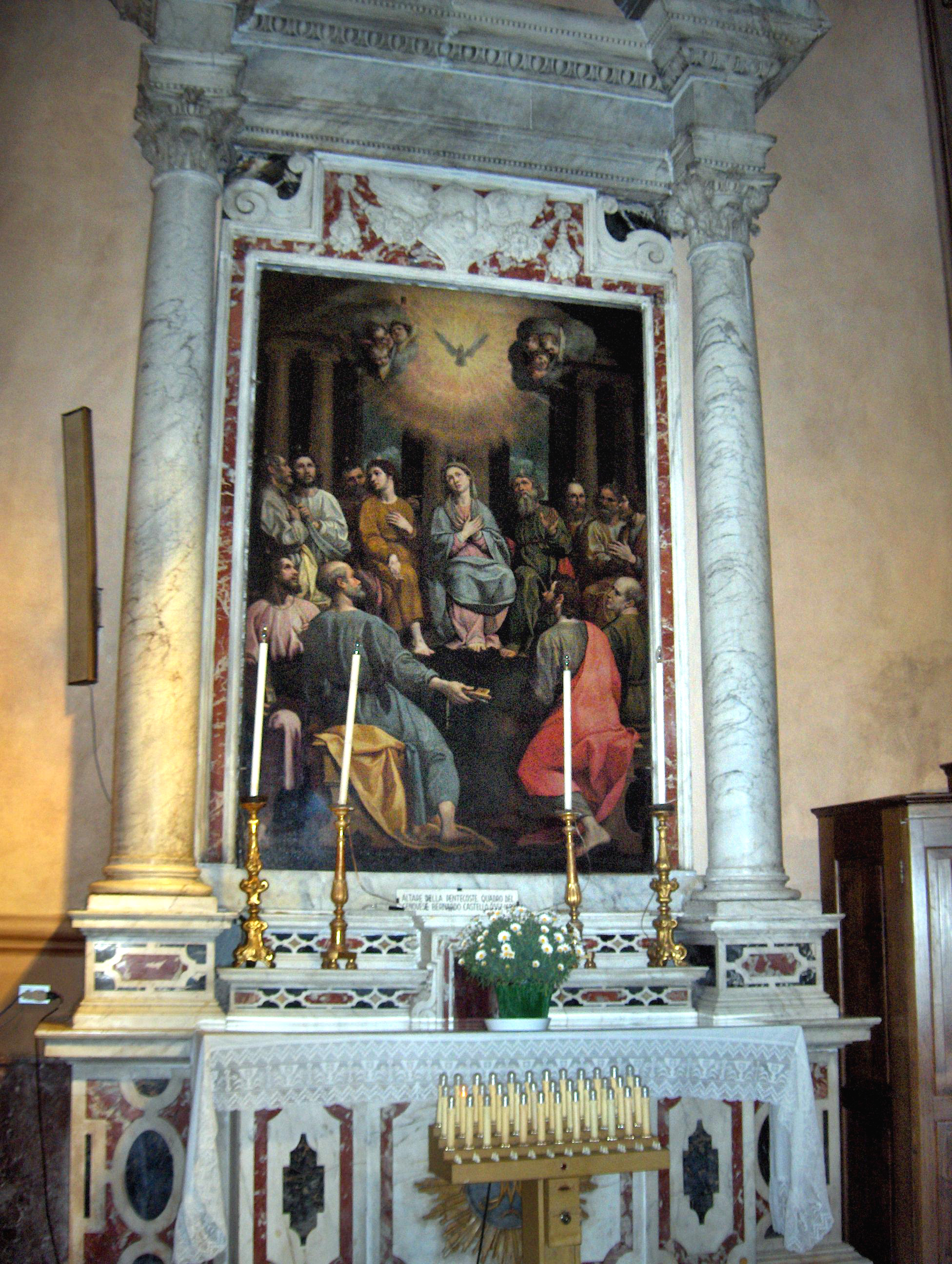 Altar of Pentecost; painting by Castello